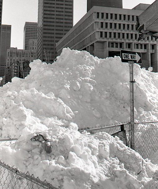 Title: Snow near City Hall Creator: City of Boston - Mayor's Office Date: 1978 February Source: Mayor Kevin White photographs, Collection # 0245.002, Chronological file File name: white-1978-02-118 Rights: Copyright City of Boston Citation: Mayor Kevin White photographs, Collection # 0245.002, Chronological file, 1978 February: Blizzard, City of Boston Archives, Boston